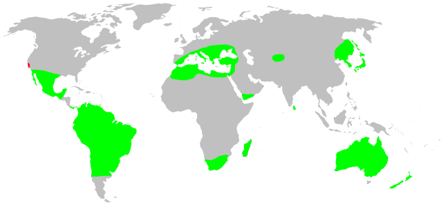 Zoropsidae habitat distribution, drawn after Platnick: World Spider Catalog 7.0. This is not at all a precise rendering of the distribution! If you have better information, please replace this map, or send me the info, and I will redraw it. Revised to include the distribution of the former Tengellidae, now included in this family.